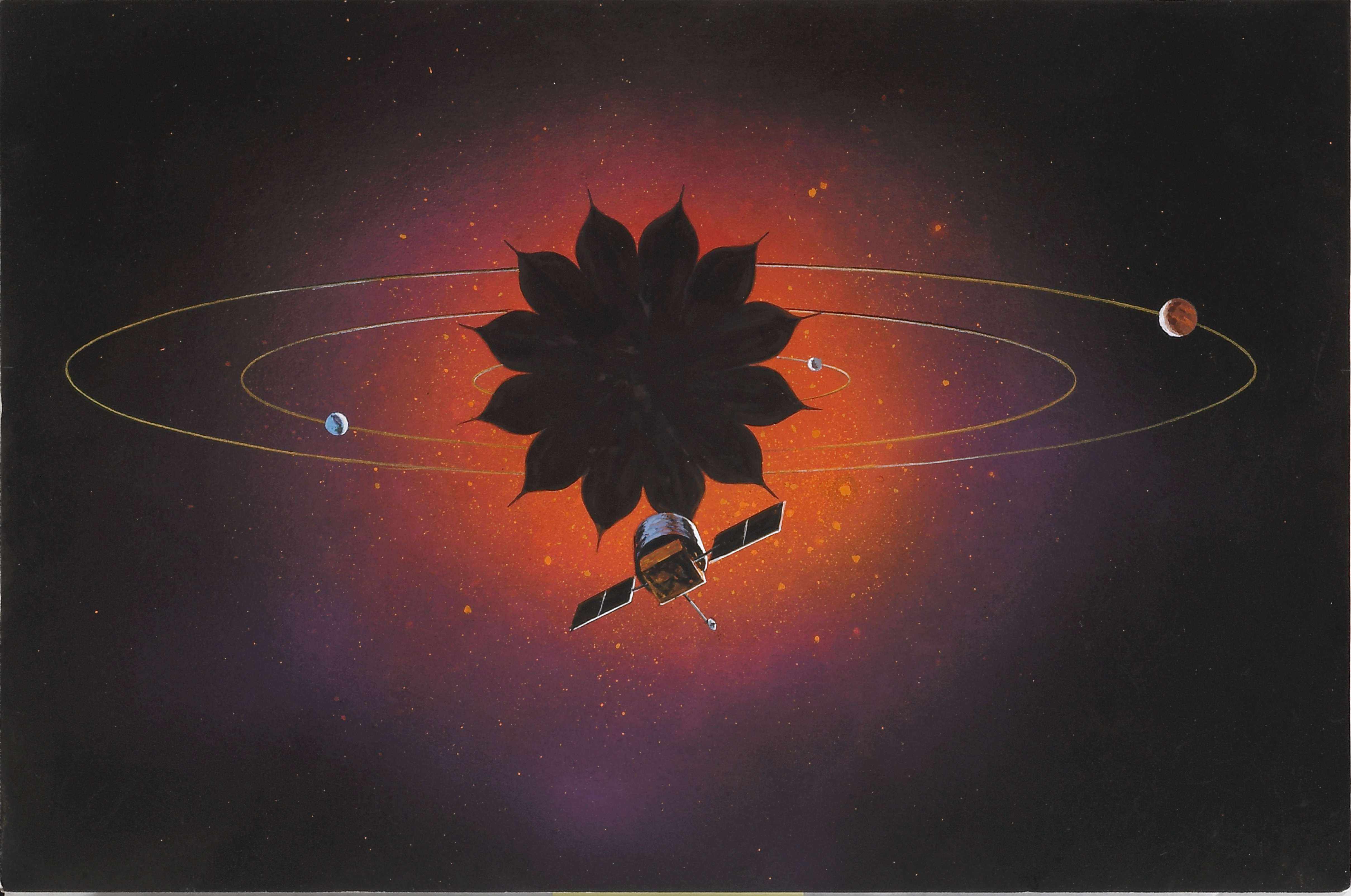 Artist's concept of the New Worlds Observatory. The dark, flower-shaped object in the center is the star shade.